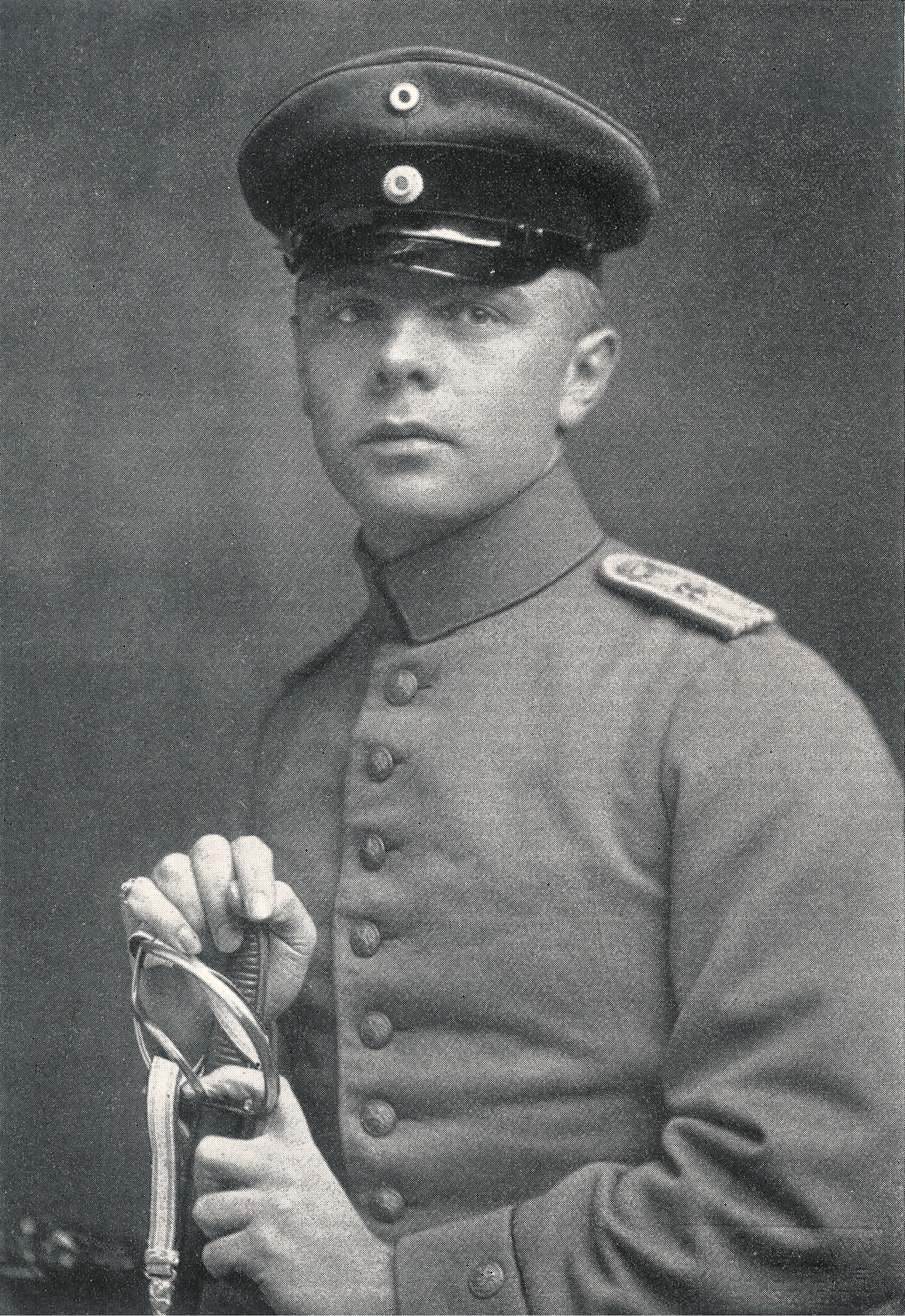 Norbert von Hellingrath as a soldier in WW-I